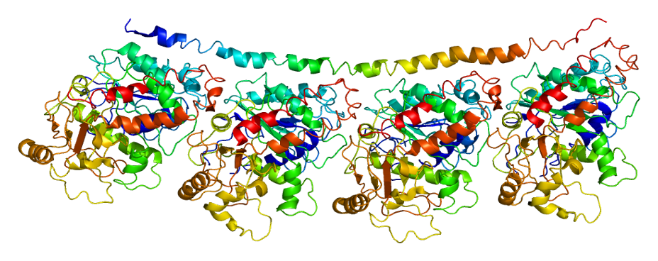 Structure of the TUBB protein. Based on PyMOL rendering of PDB 1ffx.